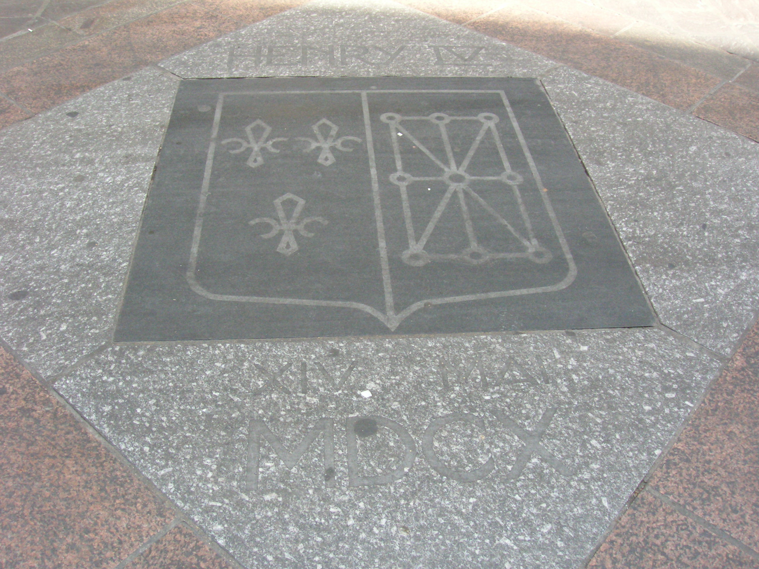 shield on the ground with indicating that the murder of Henri IV (1610 by Ravaillac) took place here.